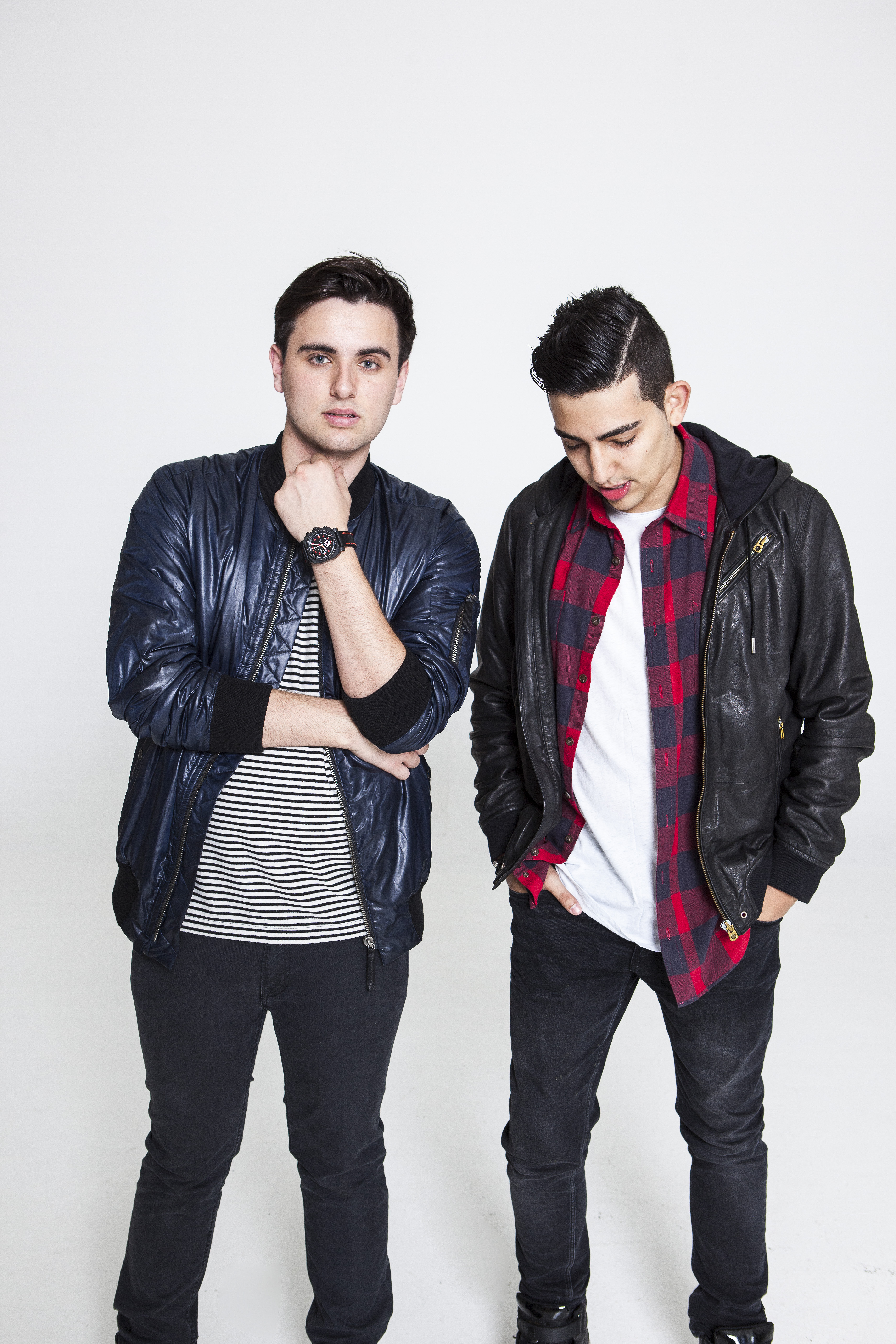 Dzeko & Torres photographed by Nikko La Mere